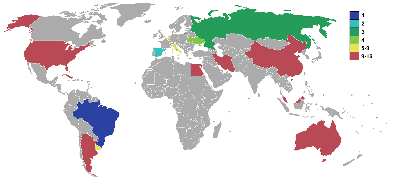 1996 FIFA Futsal World Championship